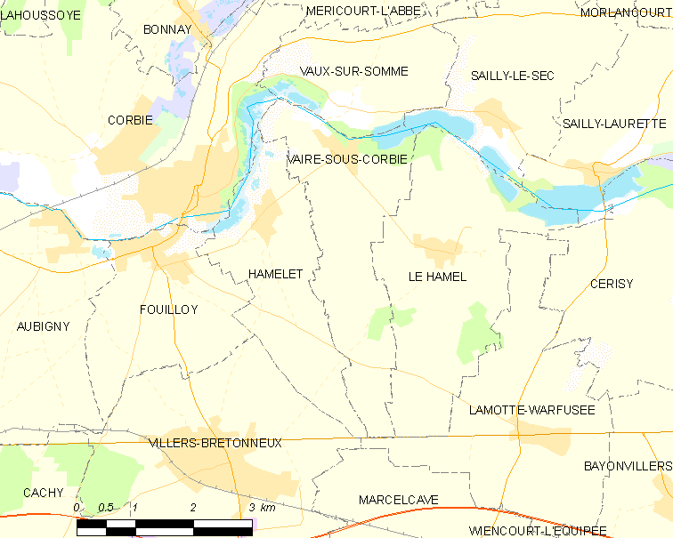 Map of French municipality Vaire-sous-Corbie